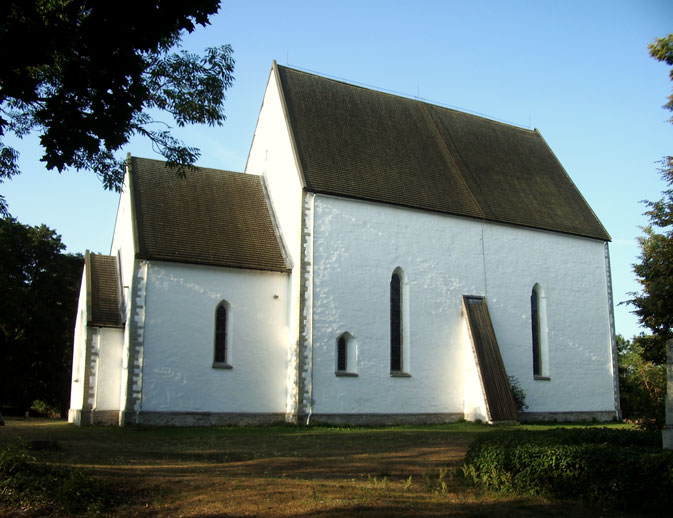 Medieval Church St.Catarina i n Liiva, Muhu, Estonia.